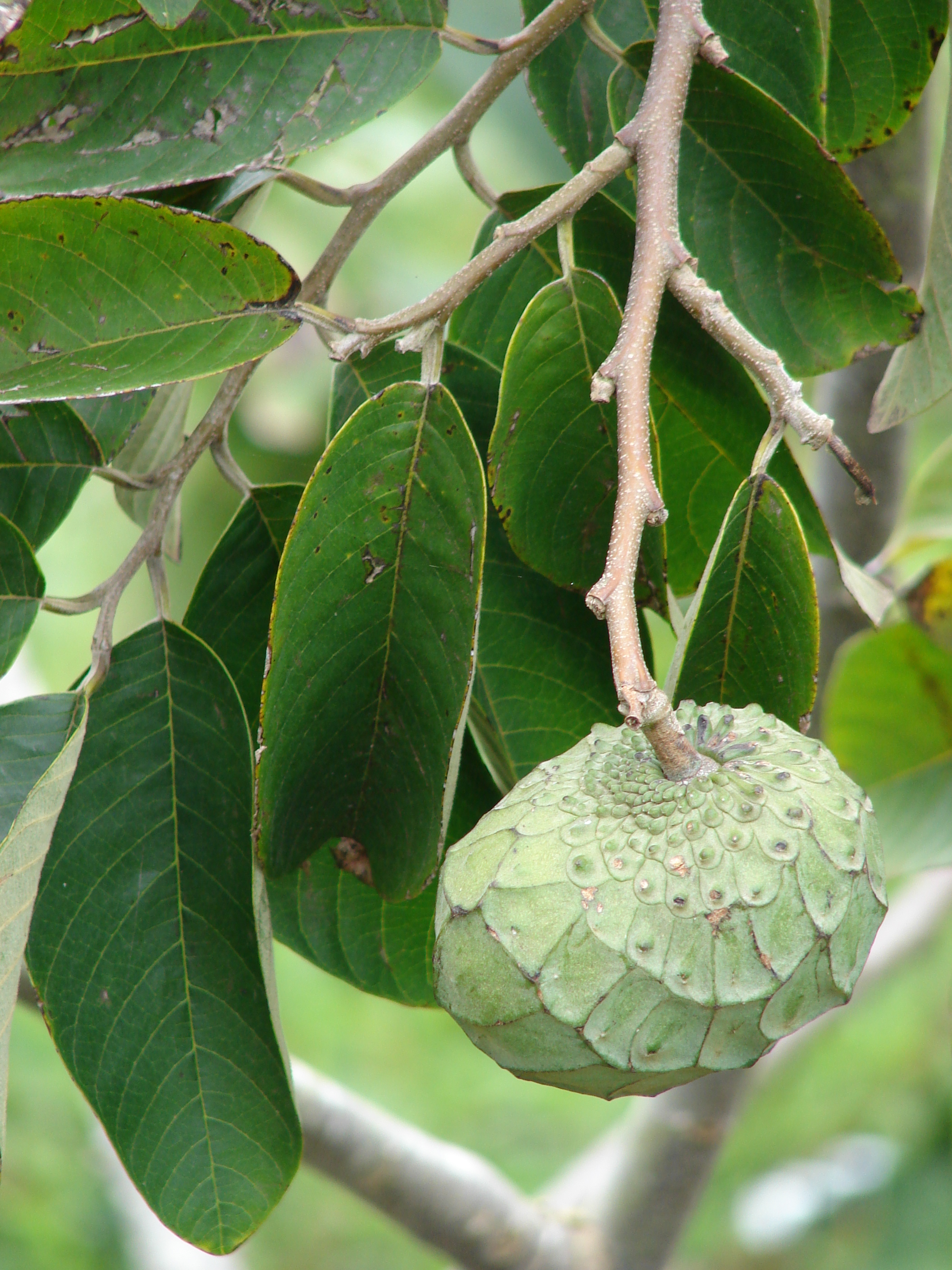 Annona cherimola (fruit). Location: Maui, Keokea